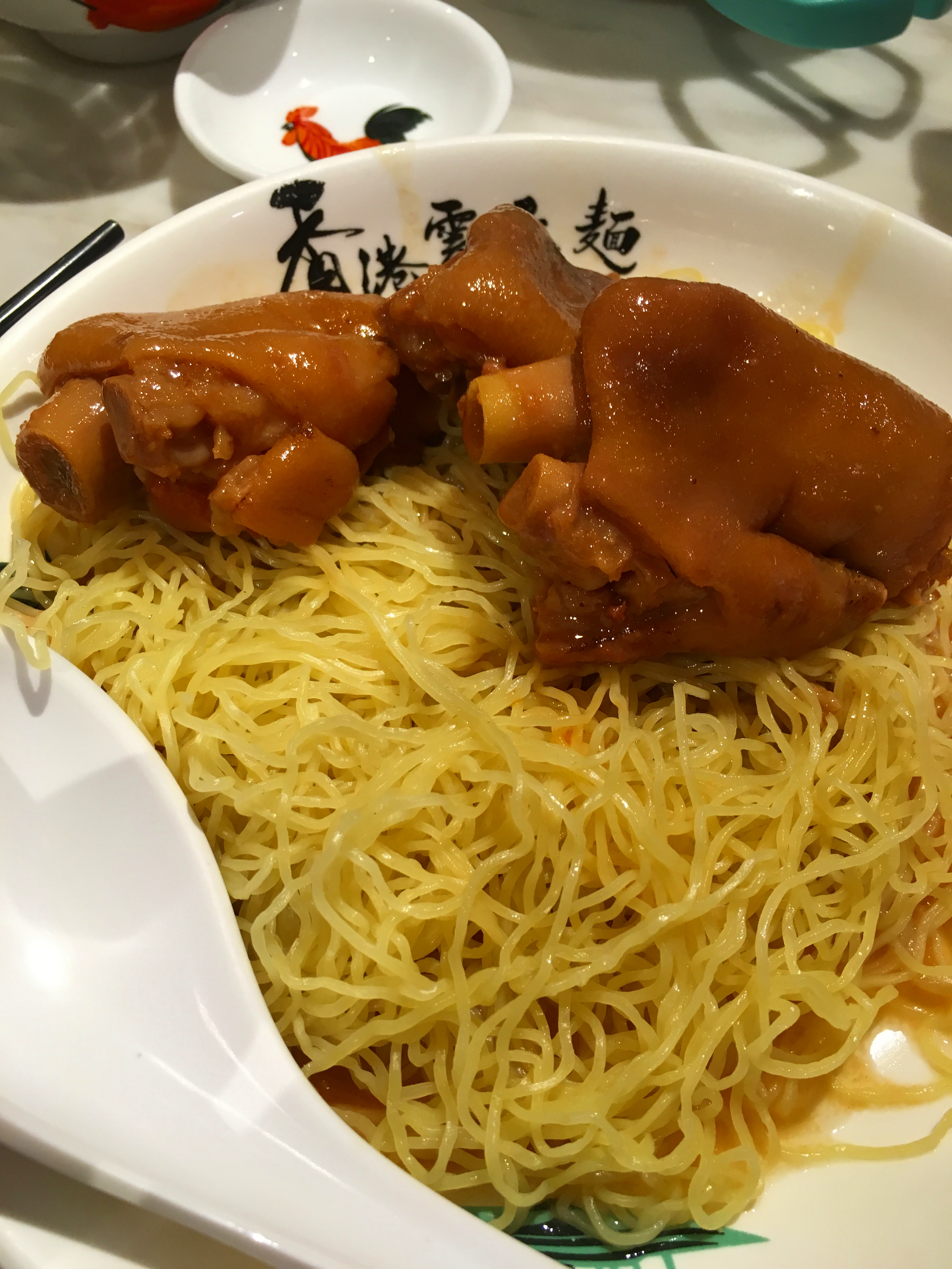 Wonton noodles or sometimes called wanton mee with pig trotters braised with nam yu (Fermented bean curd)